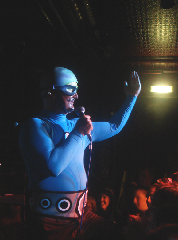 The MC Bat Commander of The Aquabats, peforming at Joseph's Well, UK on July 31, 2006.